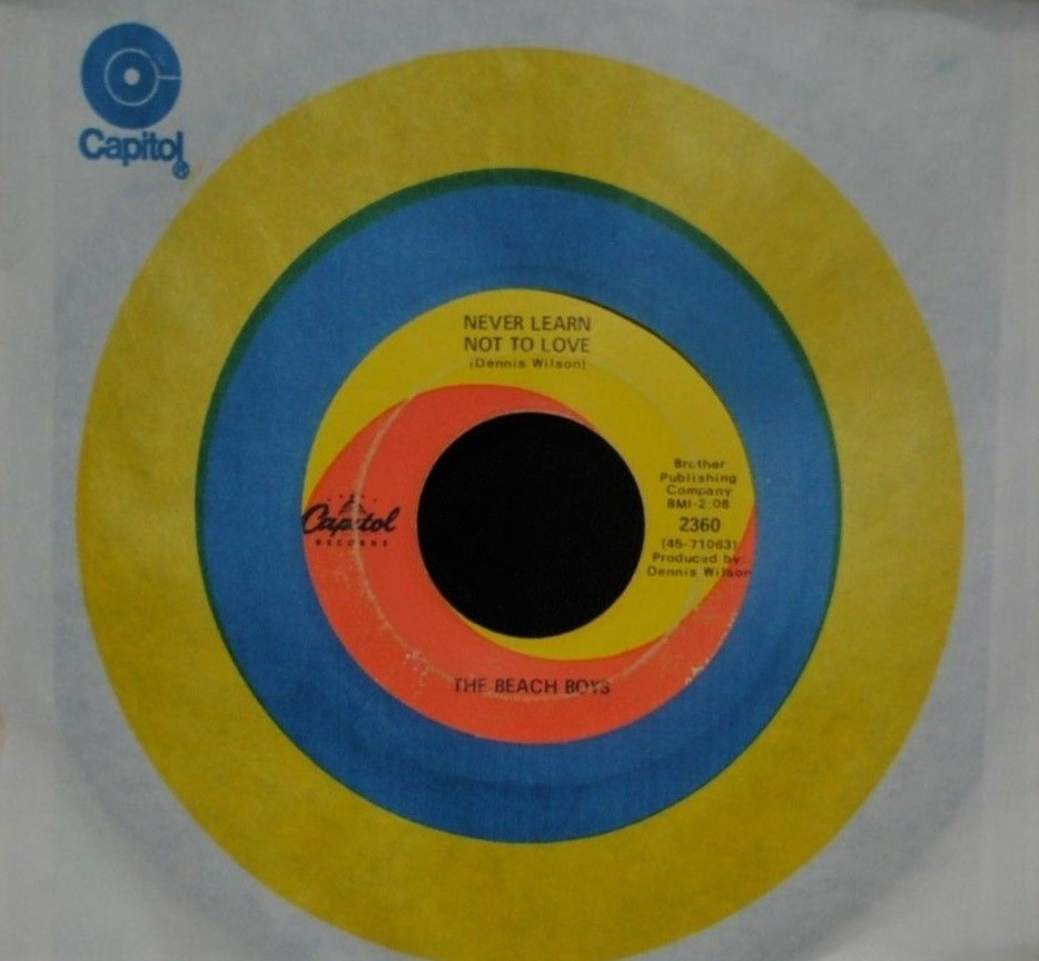 Never Learn Not to Love by The Beach Boys. This song is credited to Dennis Wilson, and released as the B-side to the group's Bluebirds over the Mountain single on December 2, 1968. The song was actually an altered version of Cease to Exist, written by Charles Manson